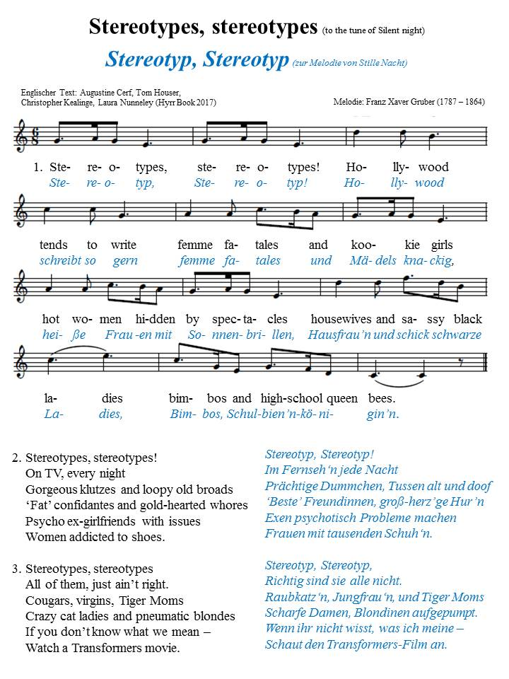 Song stereotypes